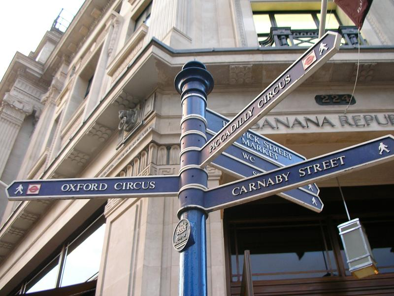 Road Guide at Oxford Street